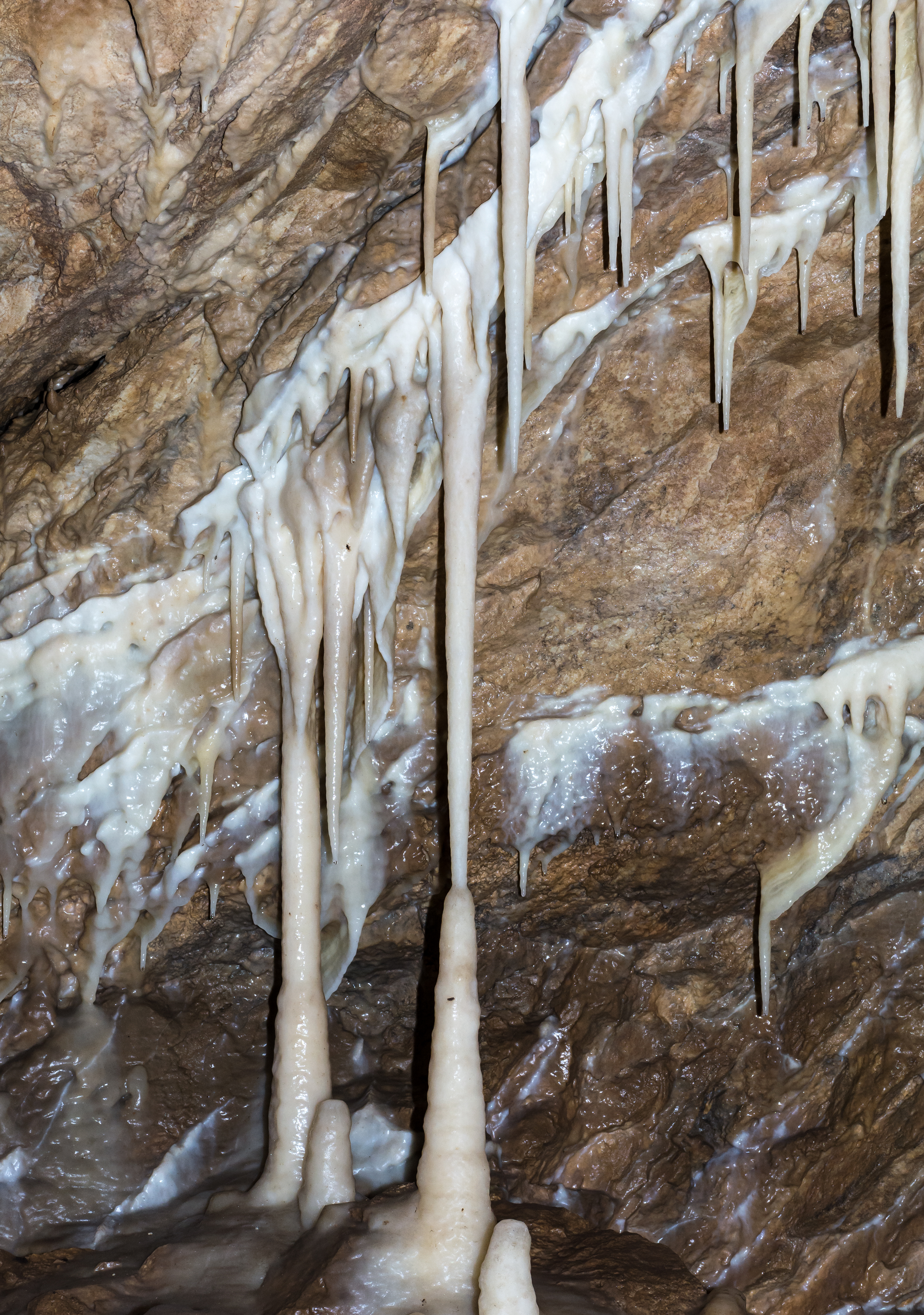 Bear Cave in Kletno (Lower Silesia, Poland), stalagnates This is a photography of Natura 2000 protected area with ID PLH020016